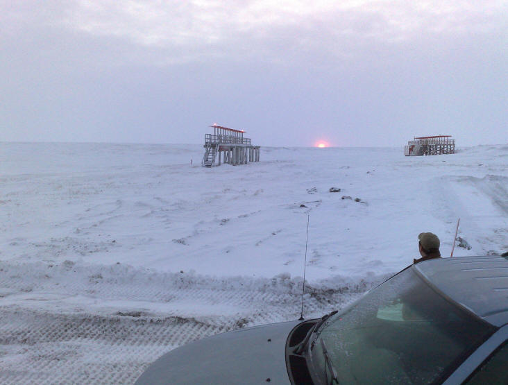 AK,alaska,north-pole,np,usa